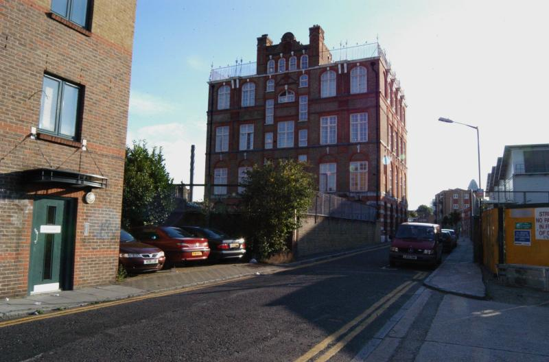 Durward Street (Buck's Row) in 2006. Murder scene of Polly Nichols, the first victim in the Jack the Ripper murders.